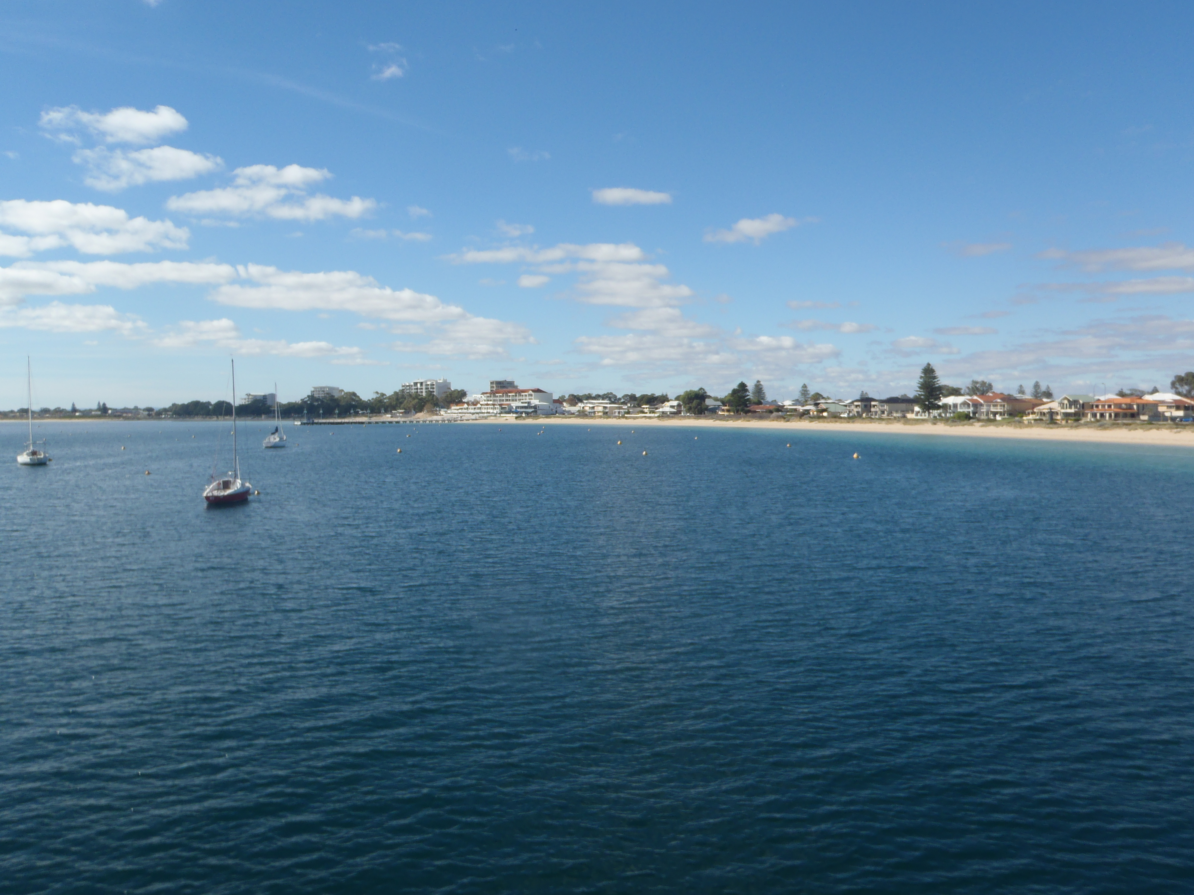 Rockingham, Western Australia, as seen from Palm Beach Jetty